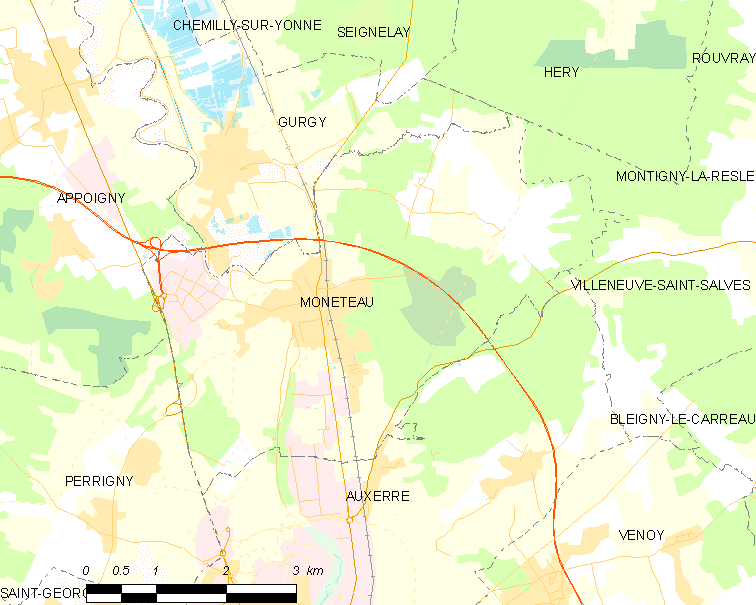 Map of French municipality Monéteau